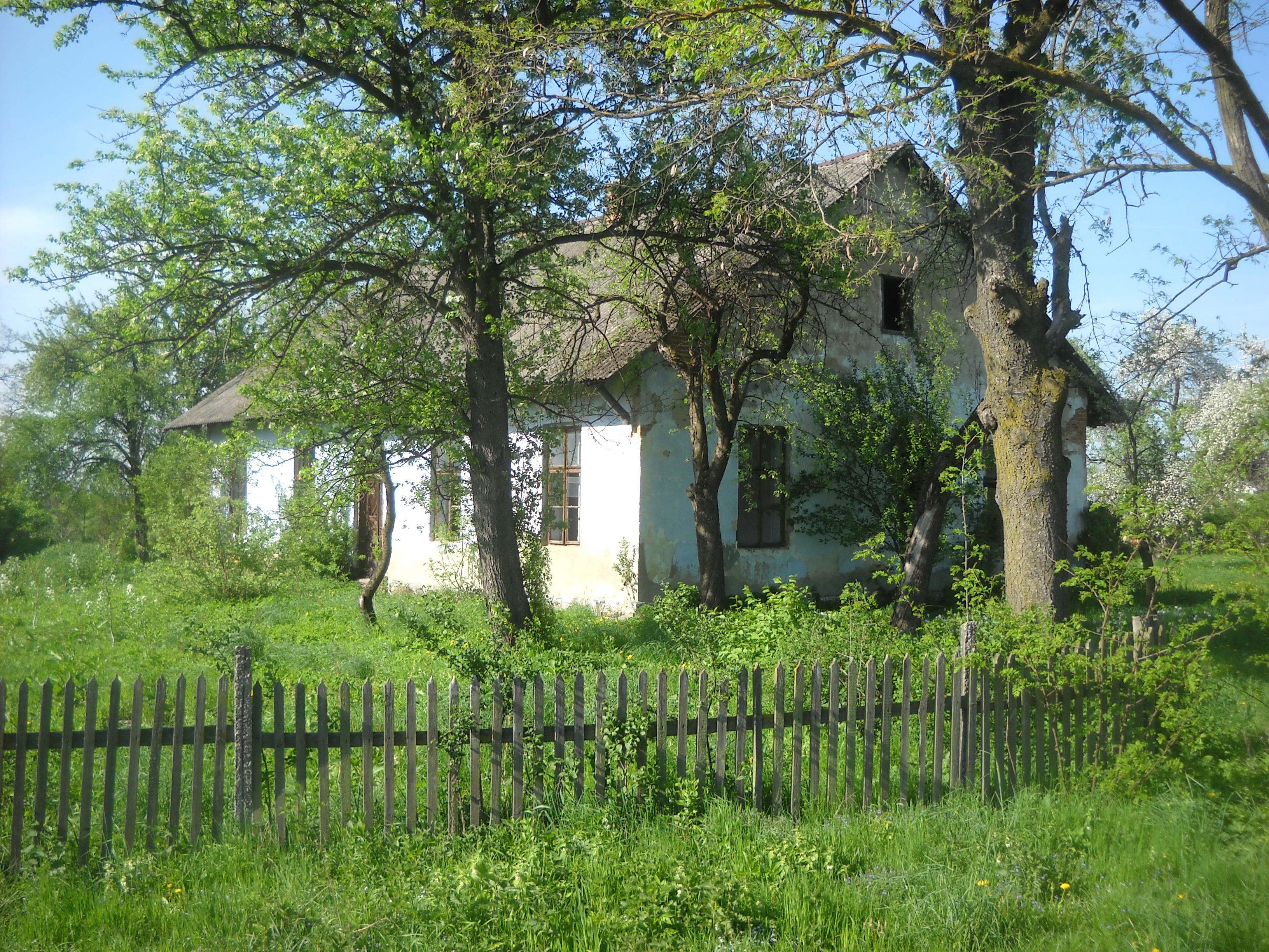 Abandoned school building in the village Oblaznytsya